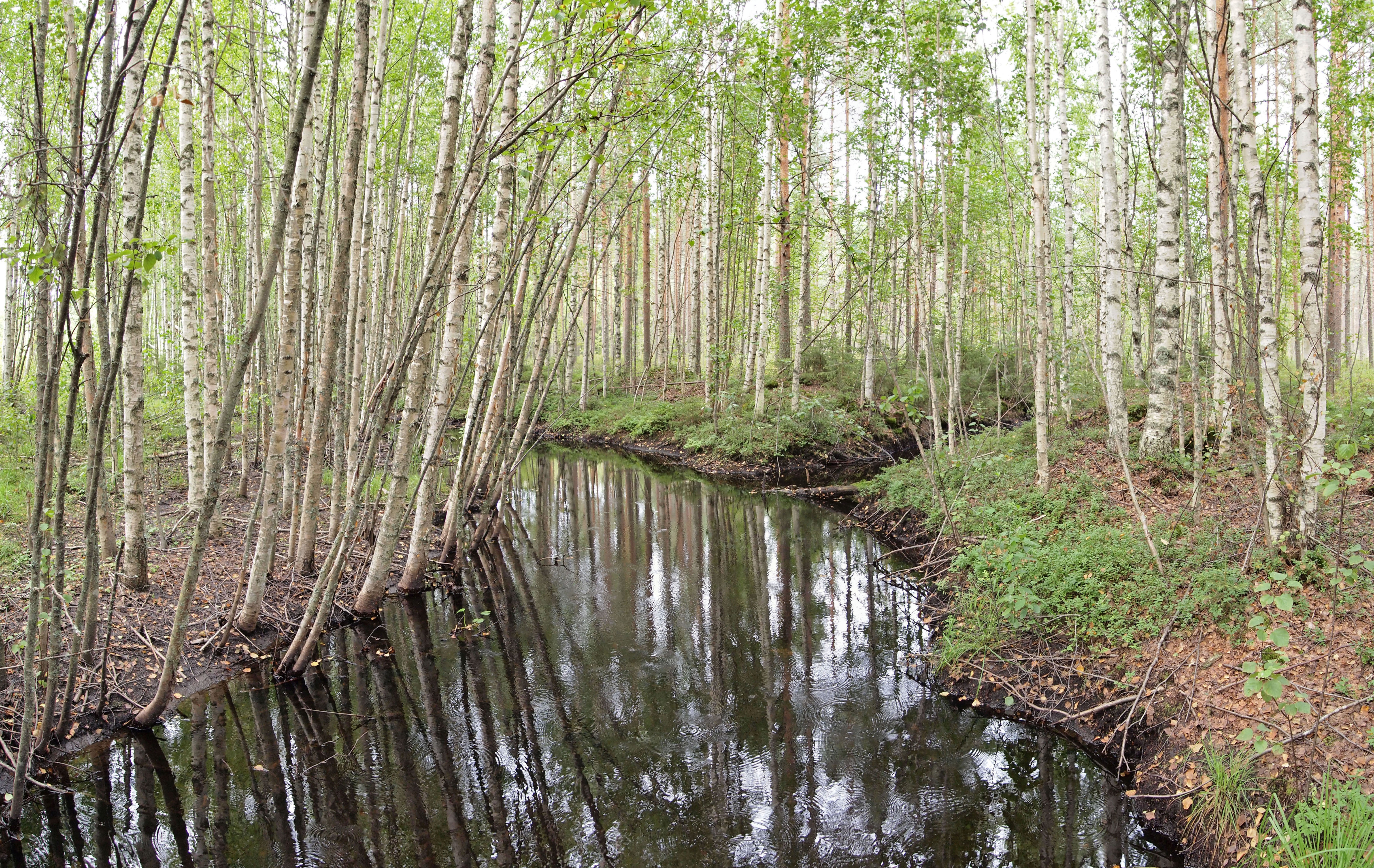 A stream near Keskisenlampi Naturetrail, Hankasalmi.